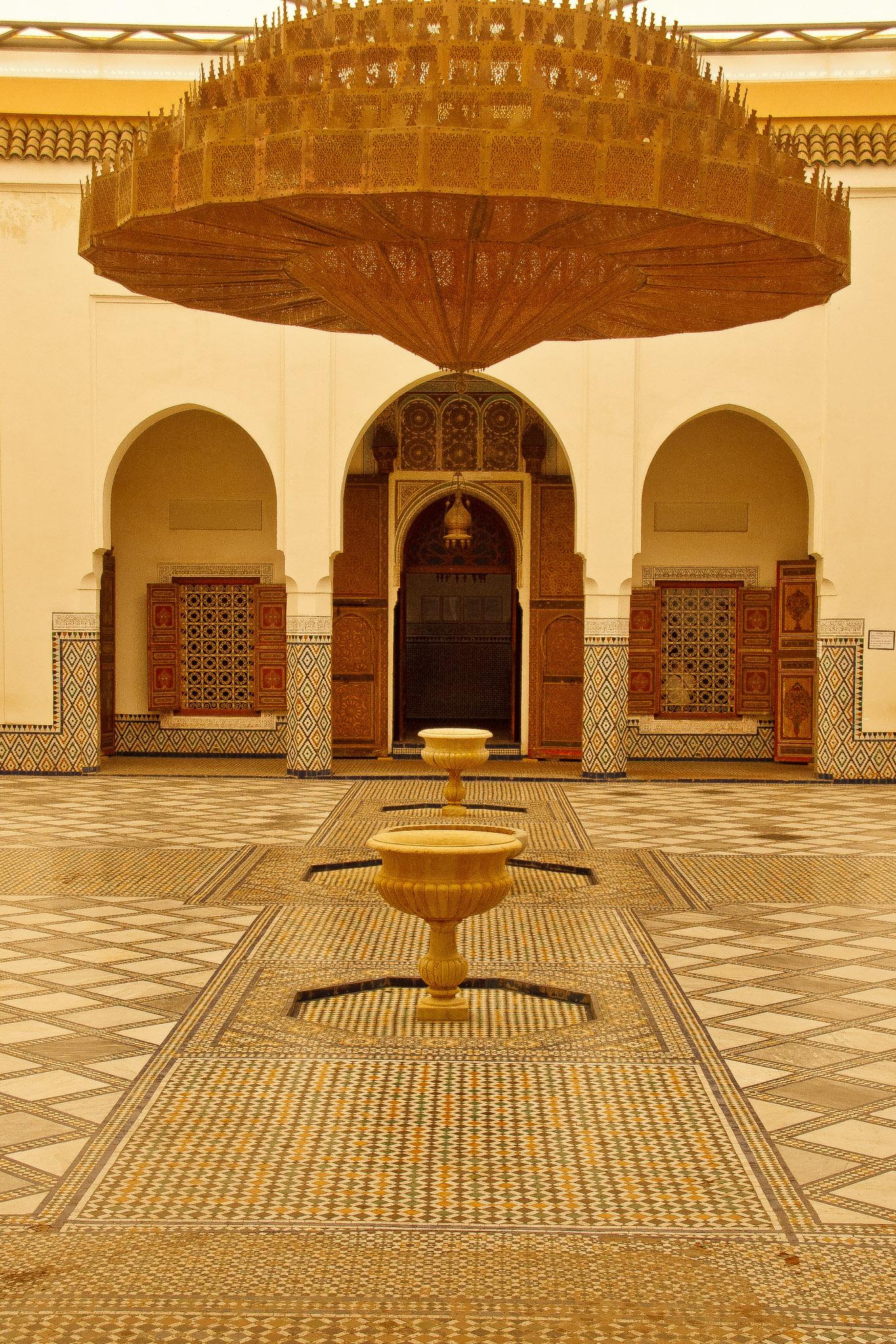 Fabulous interiors of the Dar Mnebhi palace, now the Musée de Marrakech